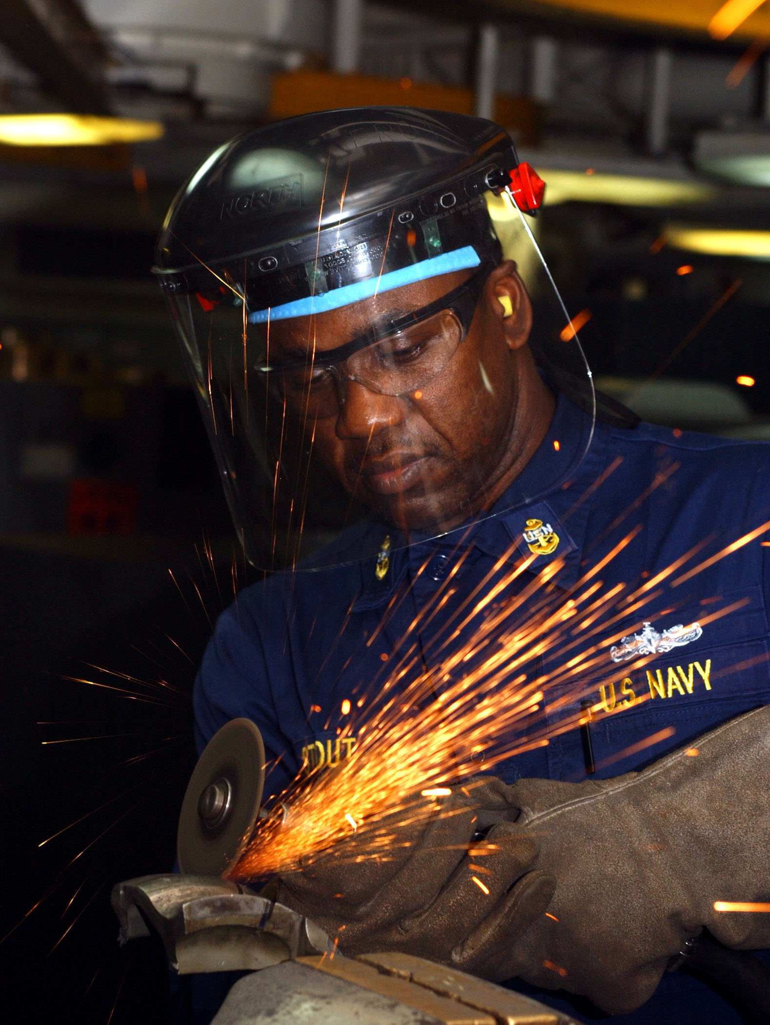 020106-N-9563N-501 At sea aboard USS Theodore Roosevelt (CVN 71) (Jan. 6, 2002) – Chief Hull Maintenance Technician (HT) Mervin Stout from the British Virgin Islands, grinds an aircraft tailhook in the HT shop aboard the Roosevelt. The carrier is operating in support of Operation Enduring Freedom. U.S. Navy Photo by Photographer’s Mate Airman Phillip A. Nickerson Jr. (RELEASED)